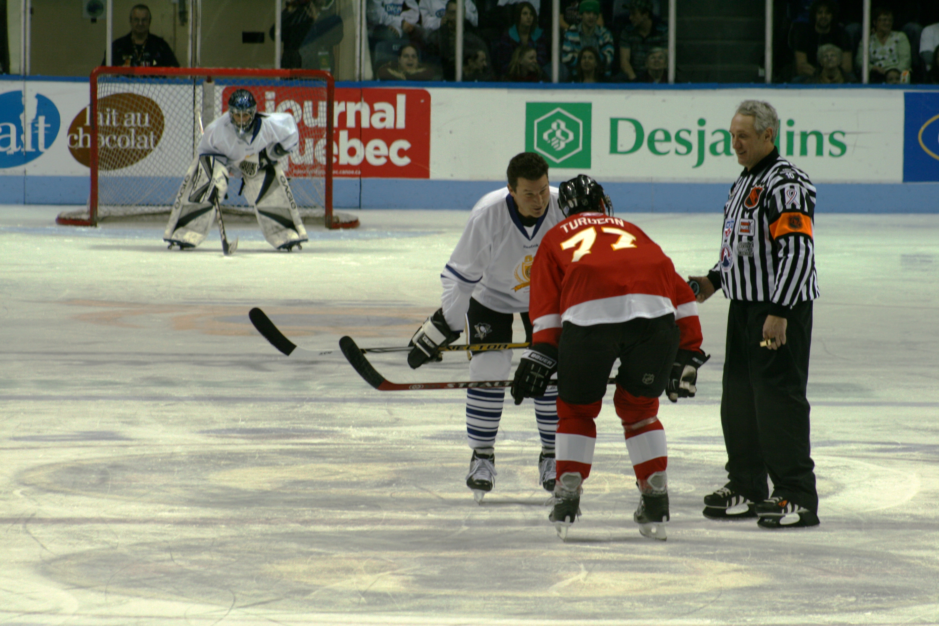 Mario Lemieux and Pierre Turgeon on a faceoff at the Legends Game for the 50th edition of the Quebec International Pee-Wee Tournament. Also in this picture Paul Stewart, a former NHL player & referee.